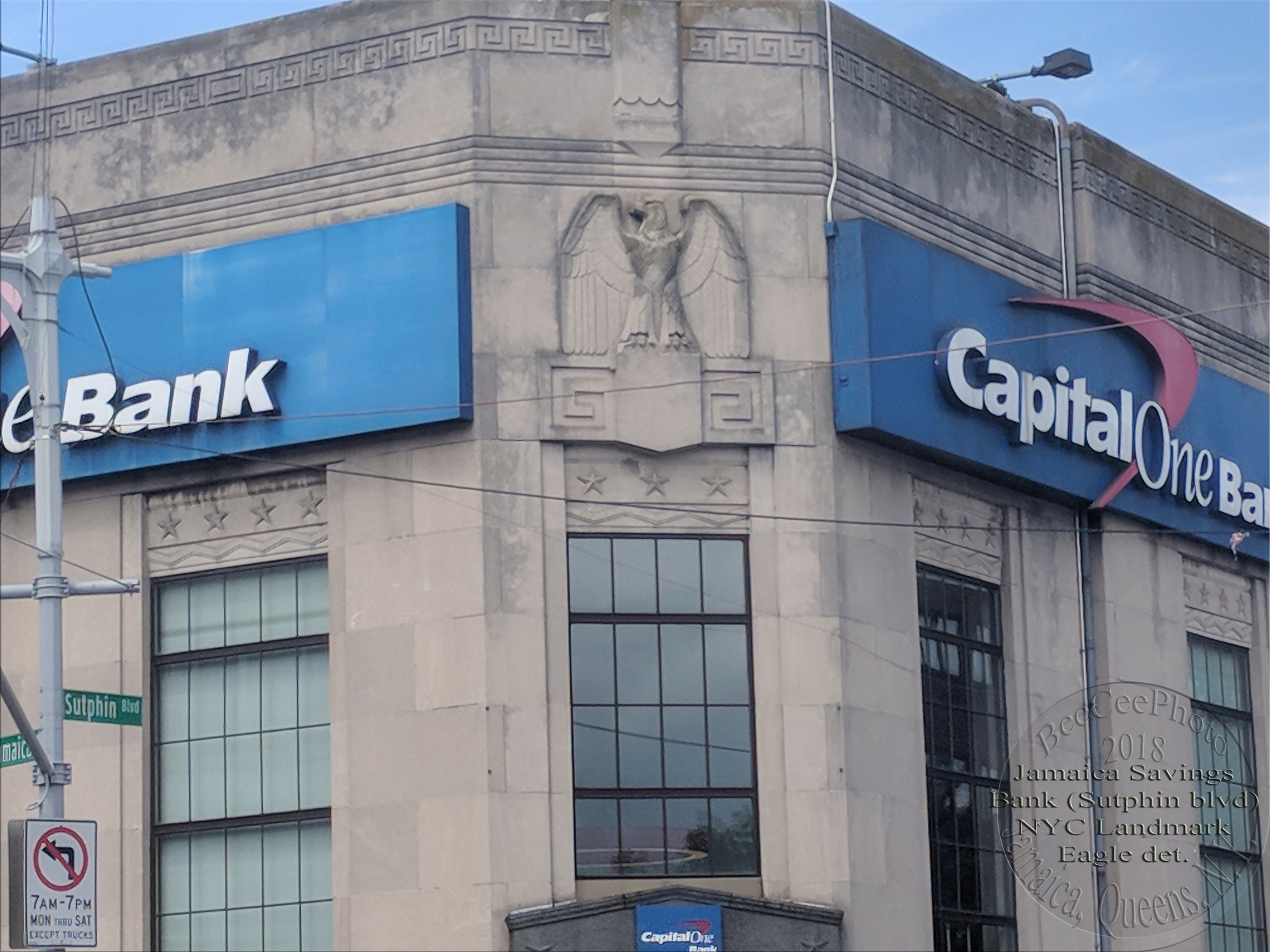 The Second branch office of the Jamaica Savings Bank on Sutphin Blvd, built 1939. Capital One Bank purchased North Fork Bank in 2008 and acquired the site for a branch office.